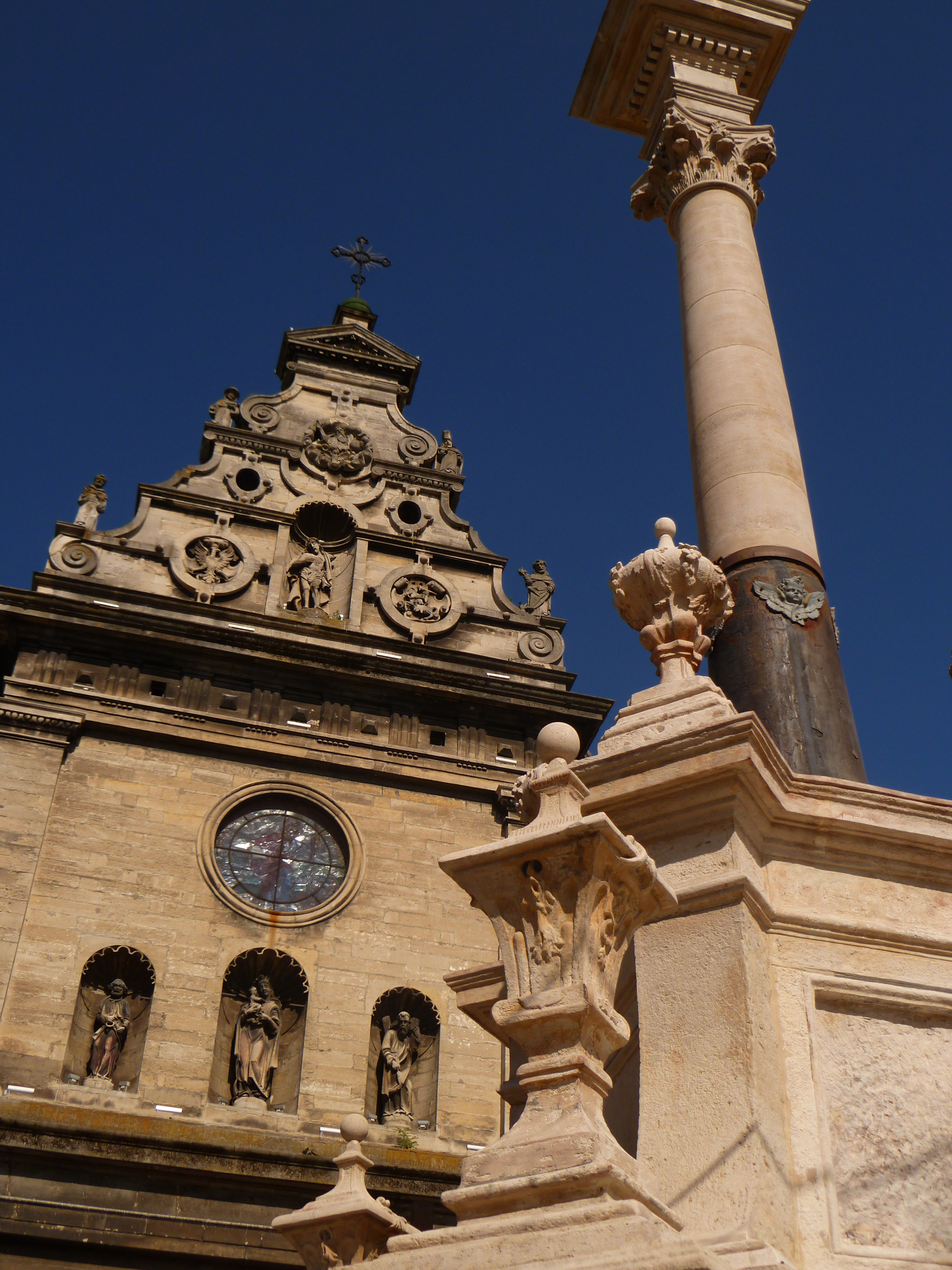 Bernardine Church in Lviv (2013)